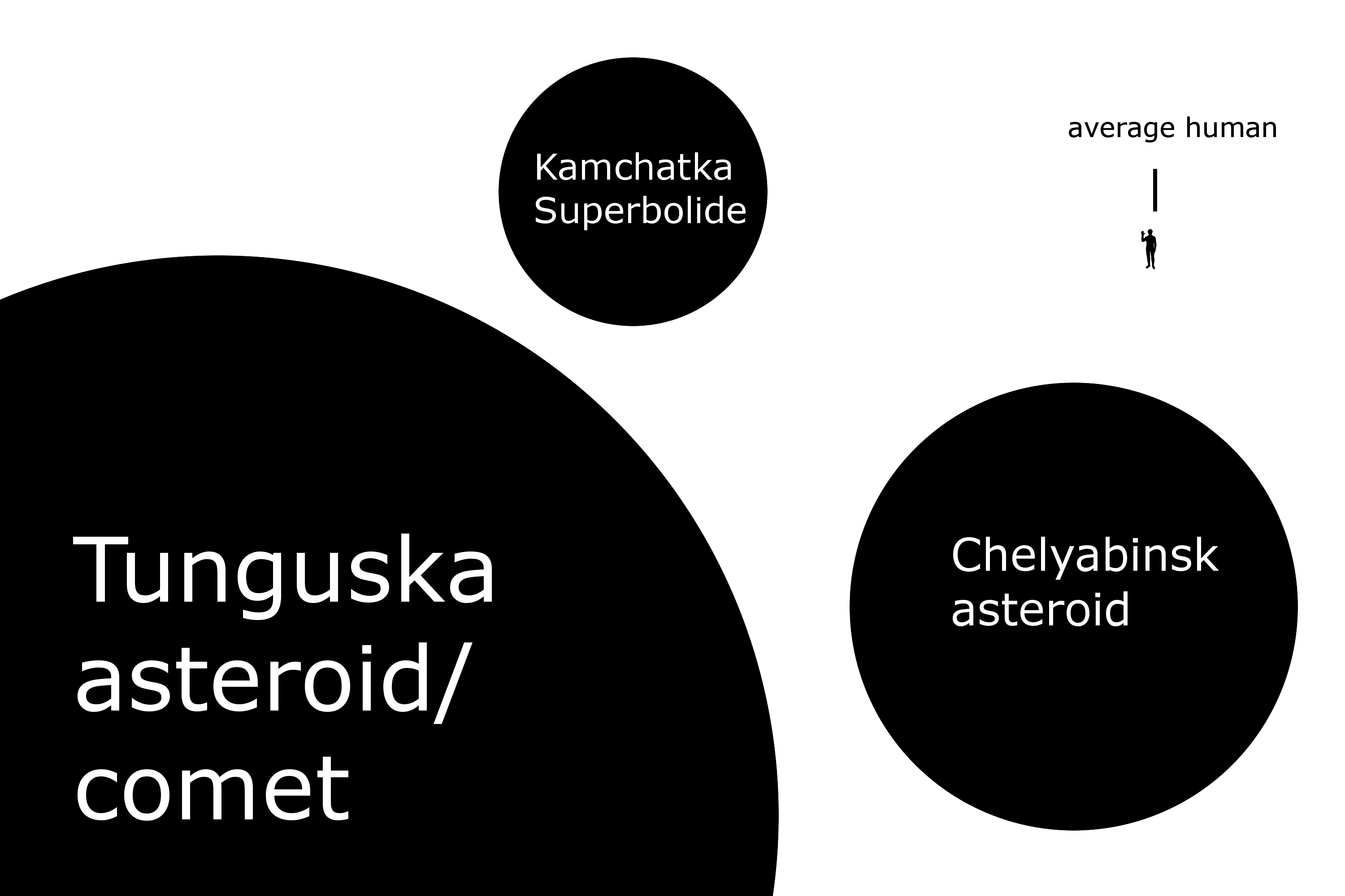 A scale model of the sizes of the asteroids involved in recent airbursts, with a human for comparison Scales used: Human: 1.8 meters Kamchatka superbolide: 12 meters Chelyabinsk meteor: 20 meters Tunguska object: 50 meters Human silhouette for reference was acquired from File:Human outline.svg.